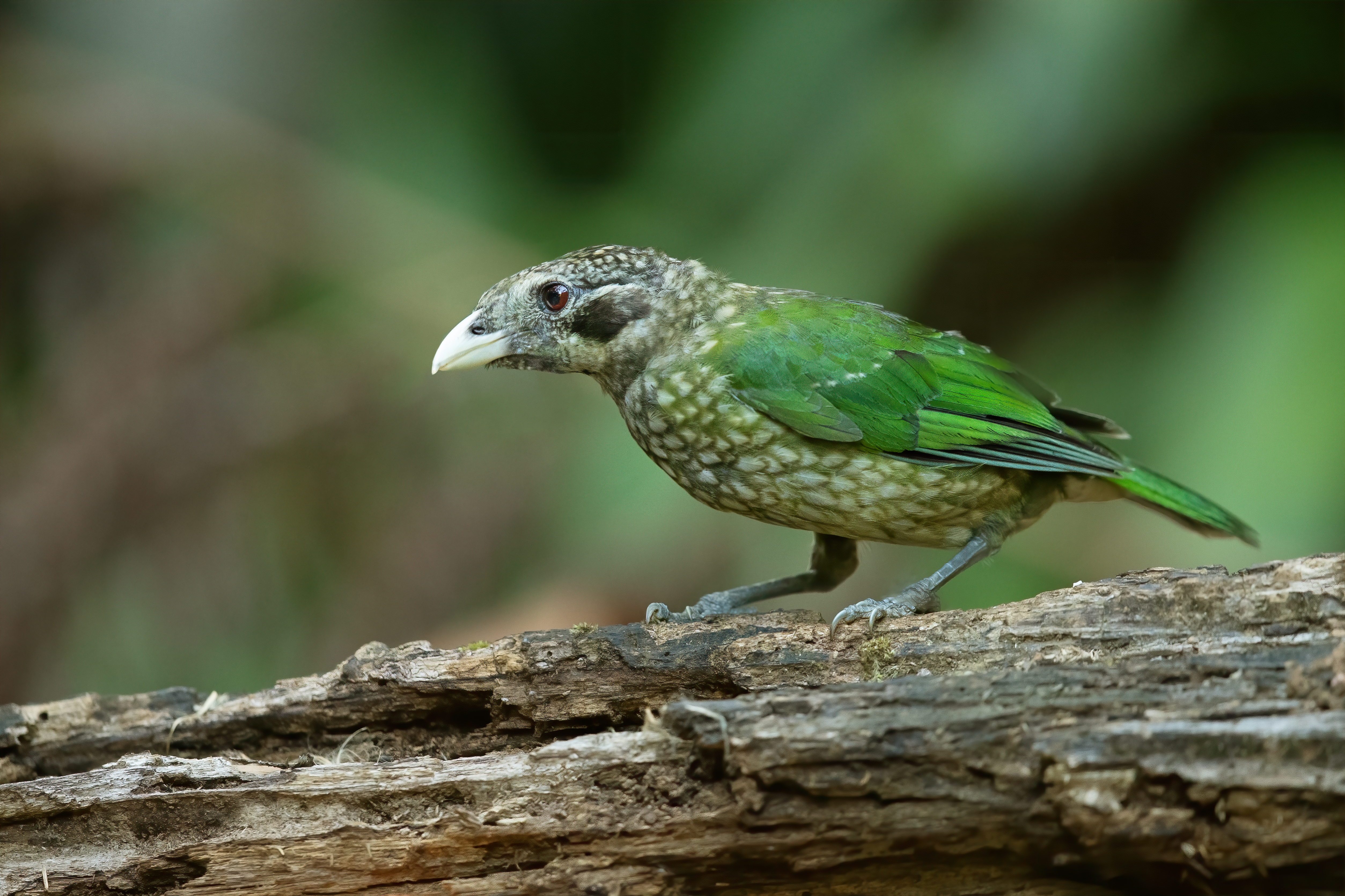 Spotted Catbird, Crater Lakes National Park--Chambers Rainforest Lodge, Tablelands, Queensland, Australia